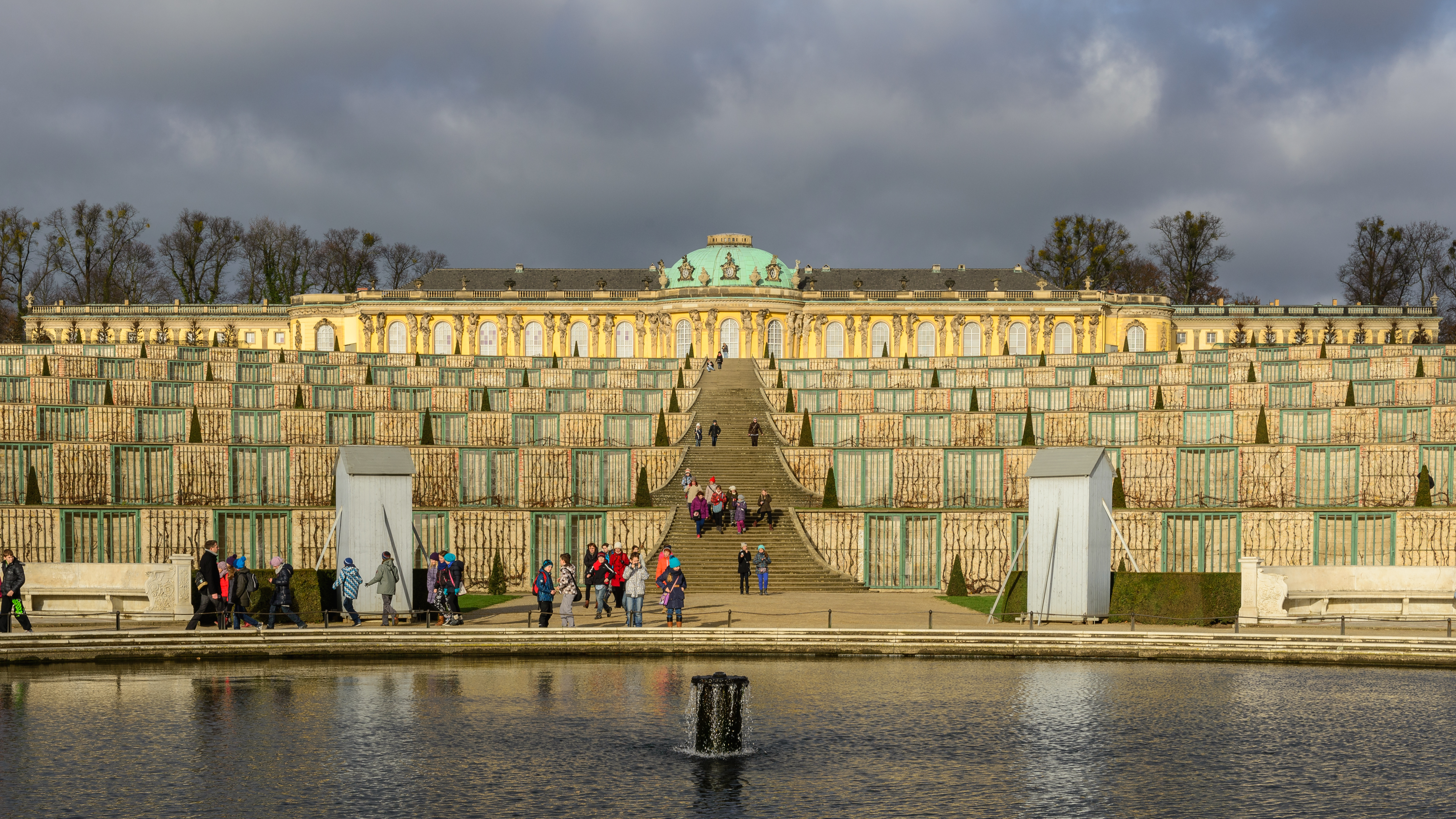 Sanssouci palace, Potsdam (Brandenburg).